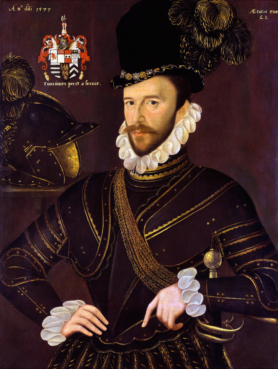 Portrait of 1577 portrait of Richard Drake (1535-1603), aetatis suae 42 ("aged 42"). The heraldic escutcheon shows 7 quarters as follows: 1: Argent, a wyvern wings displayed and tail nowed gules (Drake of Ash in the parish of Musbury, Devon) 2: Argent, on a chief gules three cinquefoils of the first (Billet of Ash; Pole, p.470, gives these arms as Billet of Bozuns Hele and another for Billet of Ash. Christiana Billet was the daughter and heiress of Alice Hampton of Ash and was the wife of John Drake, the first of the Drakes of Ash (Vivian, Lt.Col. J.L., (Ed.) The Visitation of the County of Devon: Comprising the Heralds' Visitations of 1531, 1564 & 1620, Exeter, 1895, p.292)) 3: Gules, on a fesse argent two mullets sable (Hamton of Rockbere and Ash (Pole, p.486)) 4: Ermine, on a chief indented sable three crosslets fitchee or (Orwey of Orwey and Ash (Pole, Sir William (d.1635), Collections Towards a Description of the County of Devon, Sir John-William de la Pole (ed.), London, 1791, p.495). John I de Orwey, of Orwey in the parish of Kentisbeare, Devon, whose wife was Juliana de Esse, heiress of Ash, having been given it by Henry de Esse/Ash (Pole, p.122)) 5: Barry of seven argent and sable 6: Azure, six lioncels rampant argent crowned gules, 3, 2, 1 (Forde of Forde (Pole, p.483); Alexander de la Forde married the daughter and heiress of Henry Esse/Ash of Ash (Vivian, p.292)) 7: Argent, two chevrons sable (Esse/Ash of Ash)